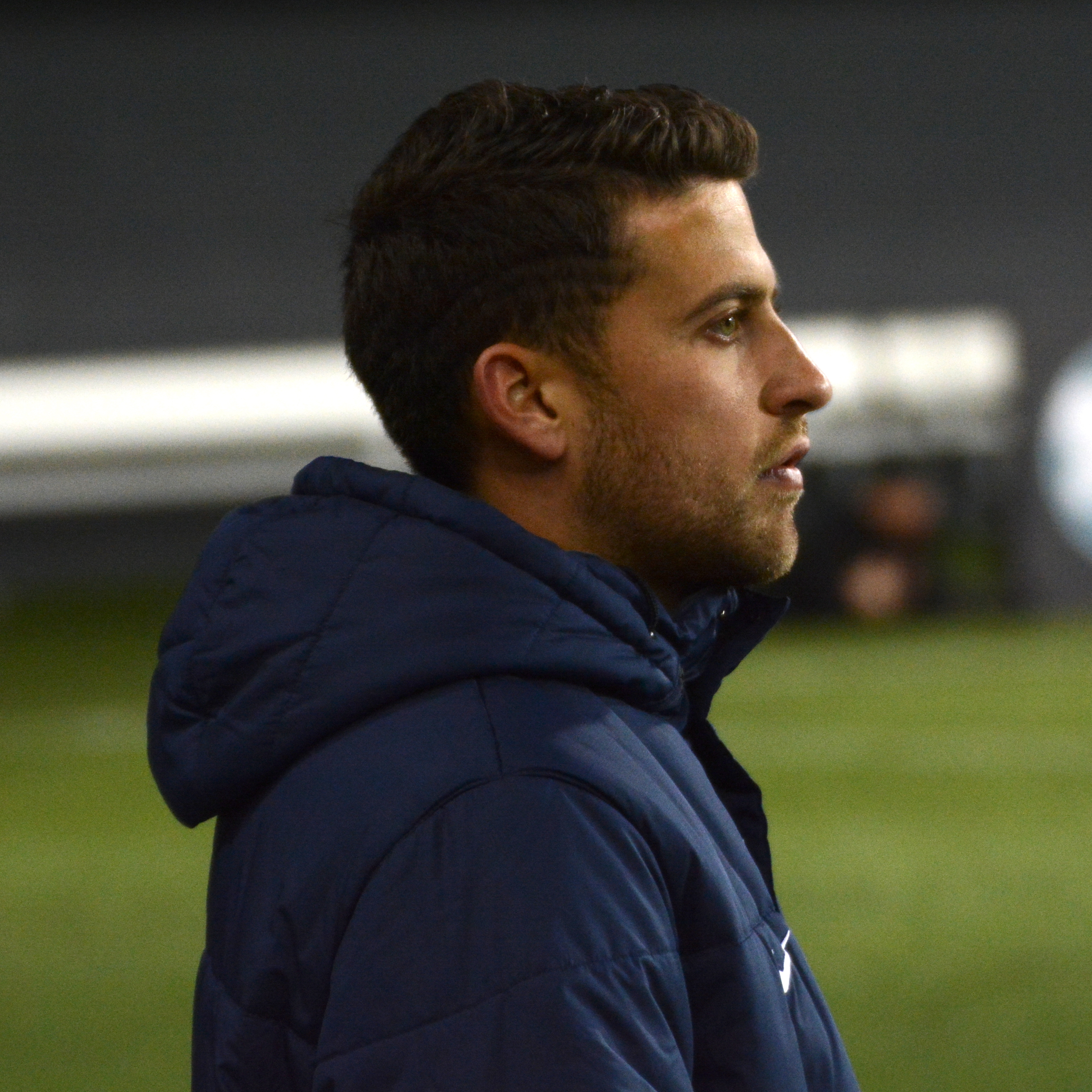 Taken during FC Cincinnati's home opener against Louisville City FC at Nippert Stadium in Cincinnati, USA on April 7, 2018.